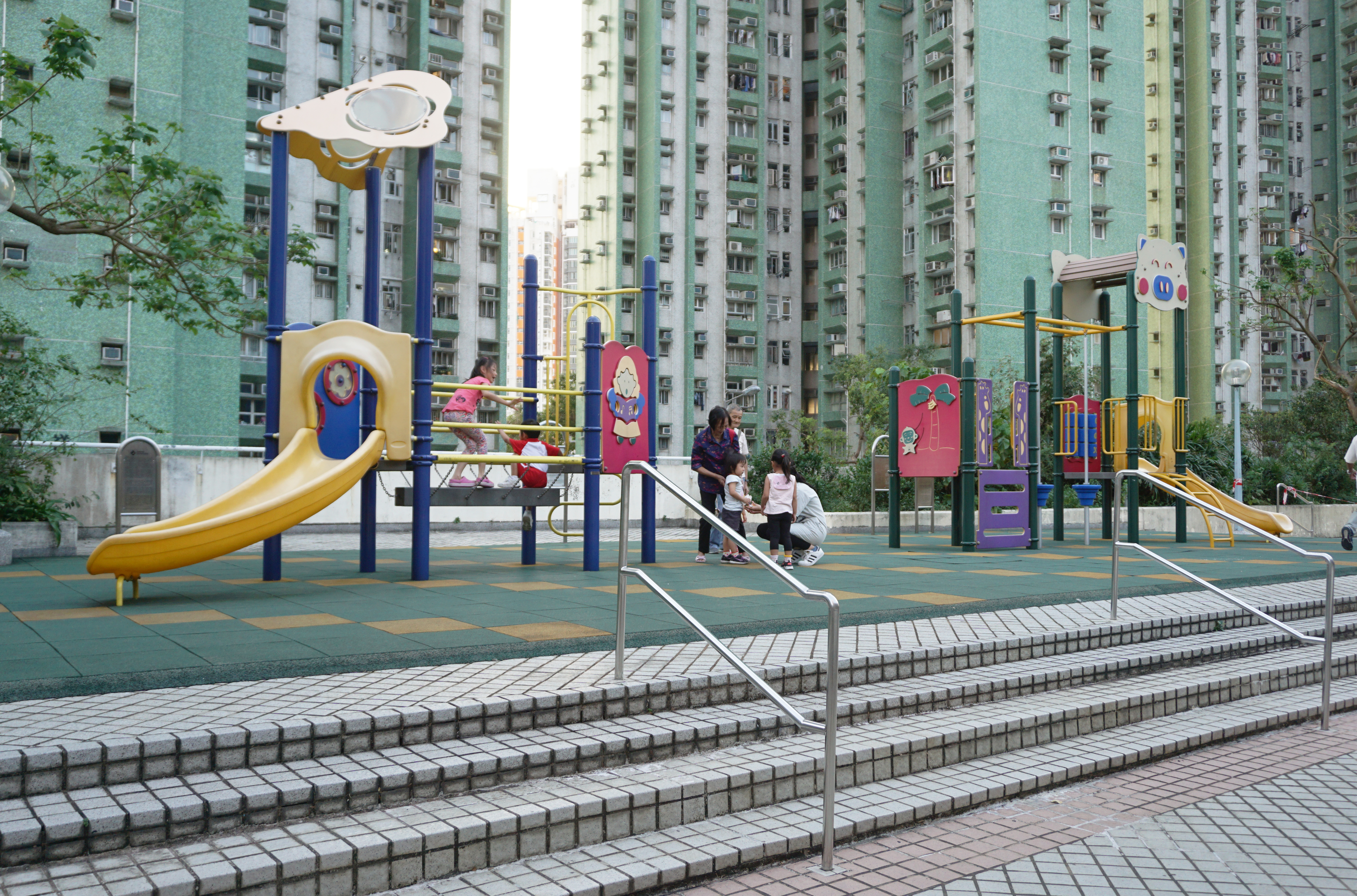 Kwong Tin Estate in Lam Tin, Hong Kong.